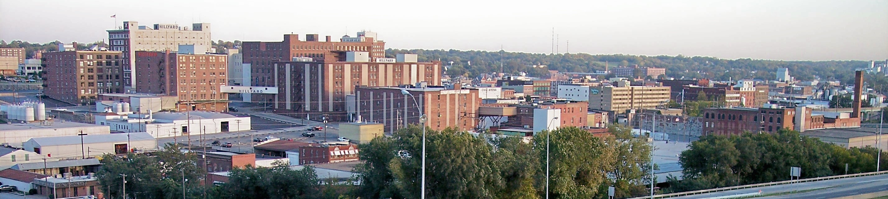 Downtown Saint Joseph, Missouri as viewed from the northwest on Prospect Avenue